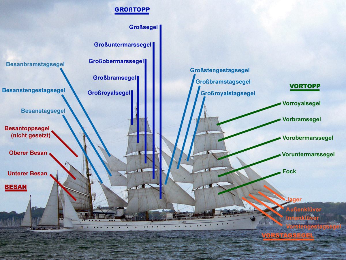 Names of the most important sails of German Navy's training ship Gorch Fock.